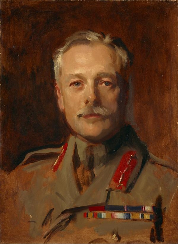 Field Marshal Douglas Haig, 1st Earl Haig (1861–1928), Commander-in-chief of the British Expeditionary Force in France from December 1915 to 1918. Study for portrait in General Officers of World War I.